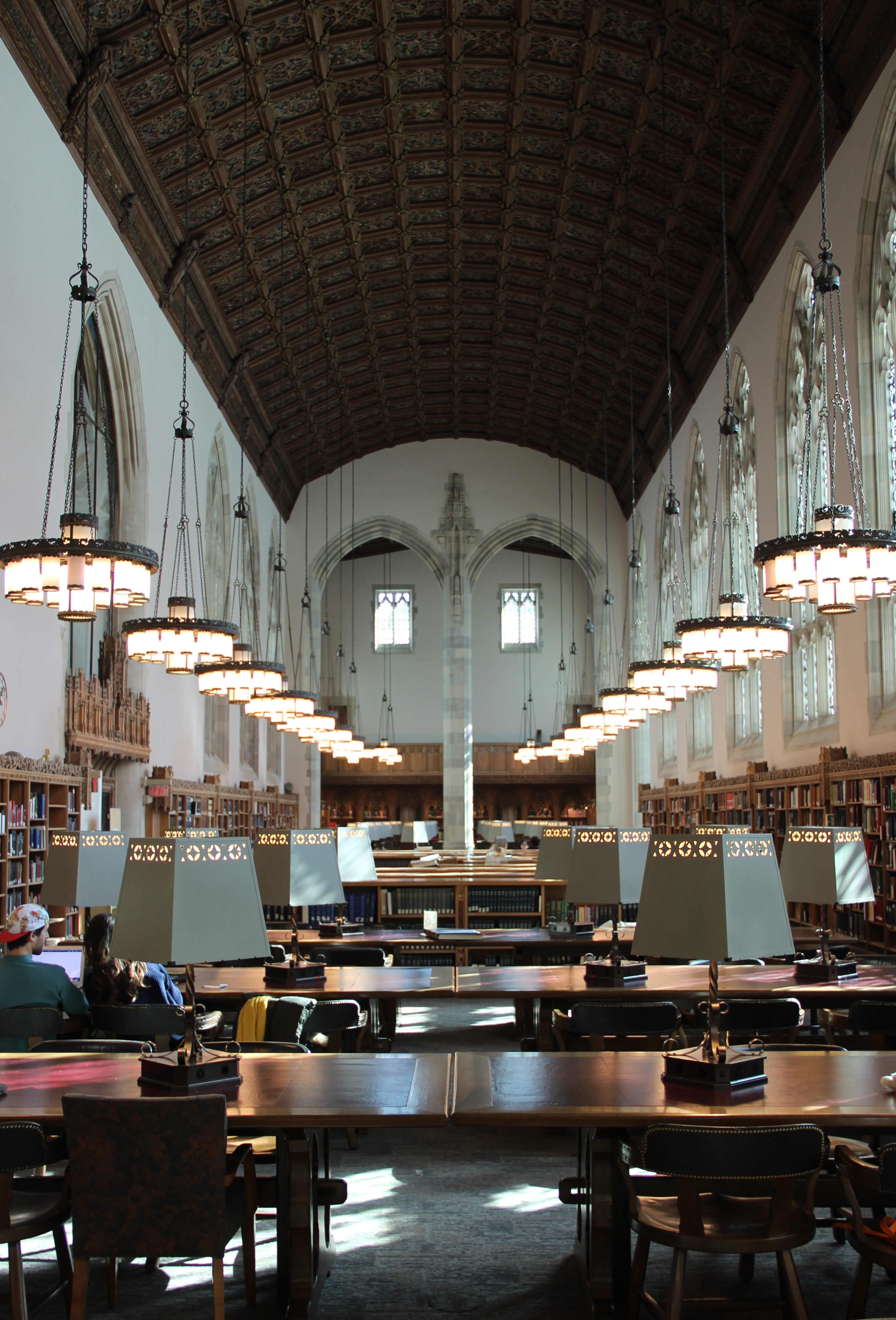 Starr Reading Room, the main reading room of Sterling Memorial Library at Yale University, New Haven, CT facing east